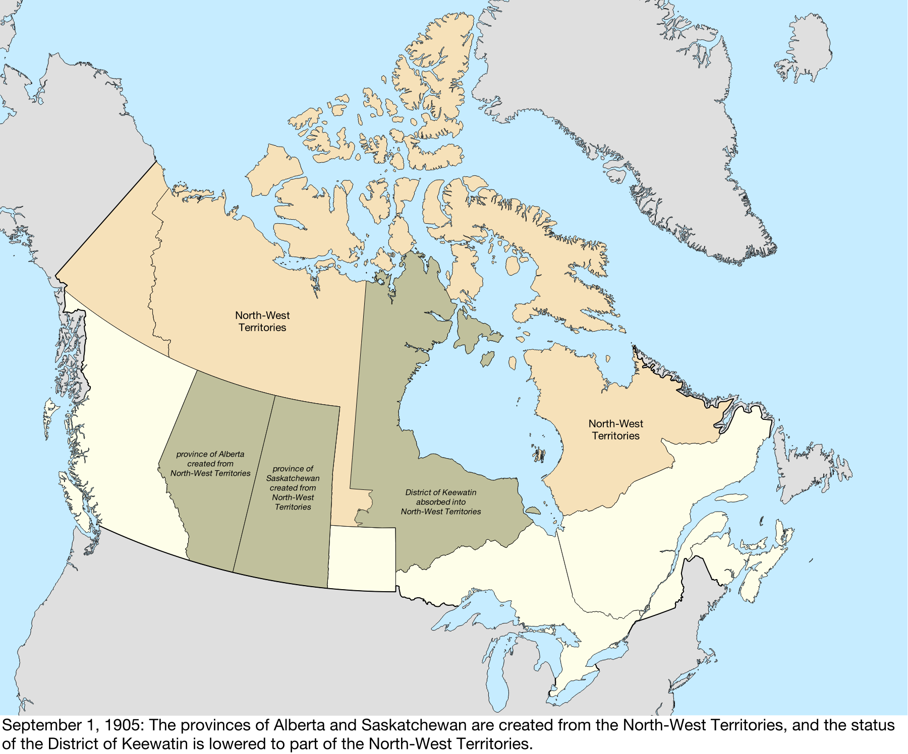 Map of the change to Canada on September 1, 1905.